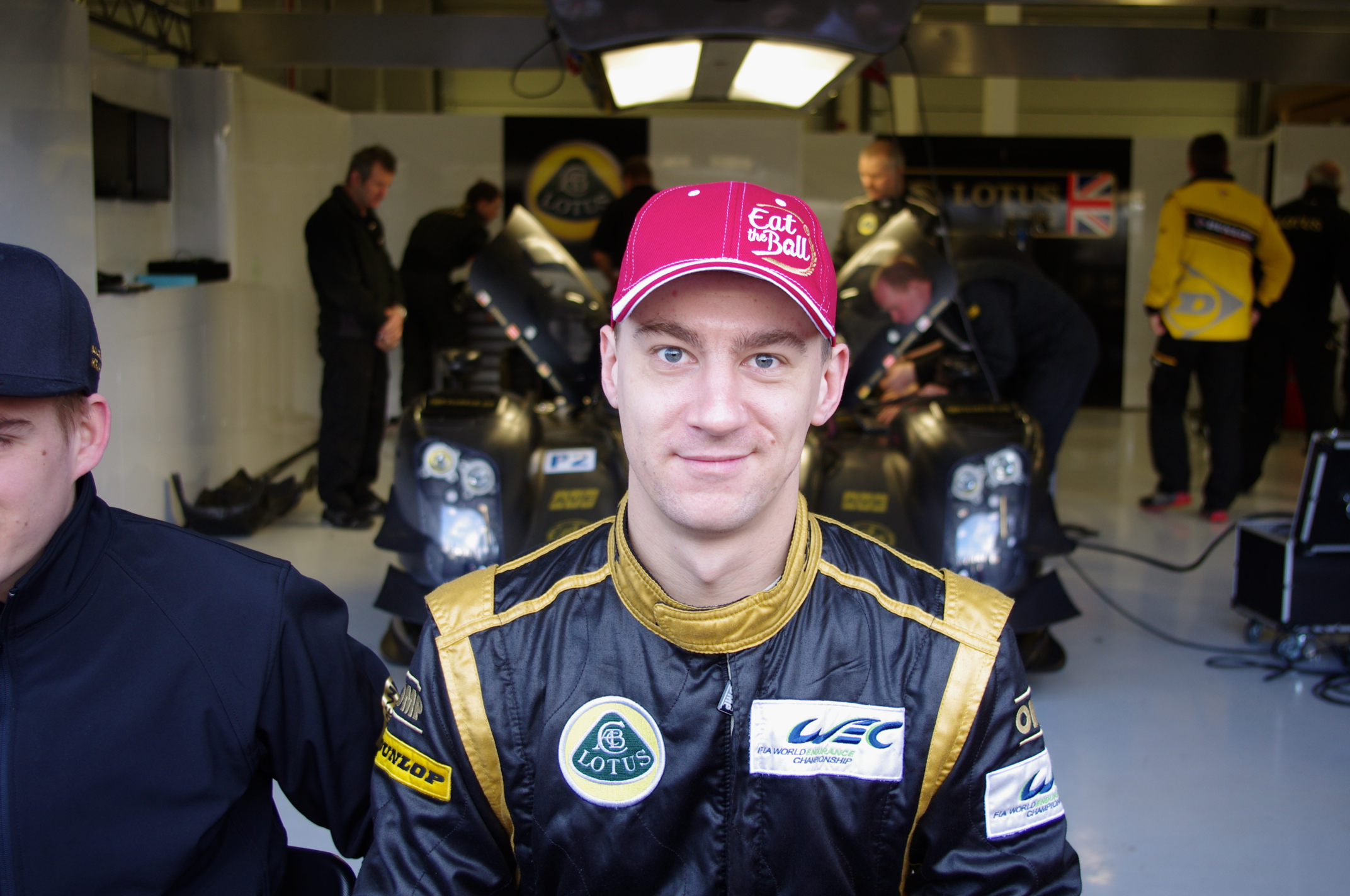 Silverstone 6 Hours 2013 FIA World Endurance Championship (WEC)